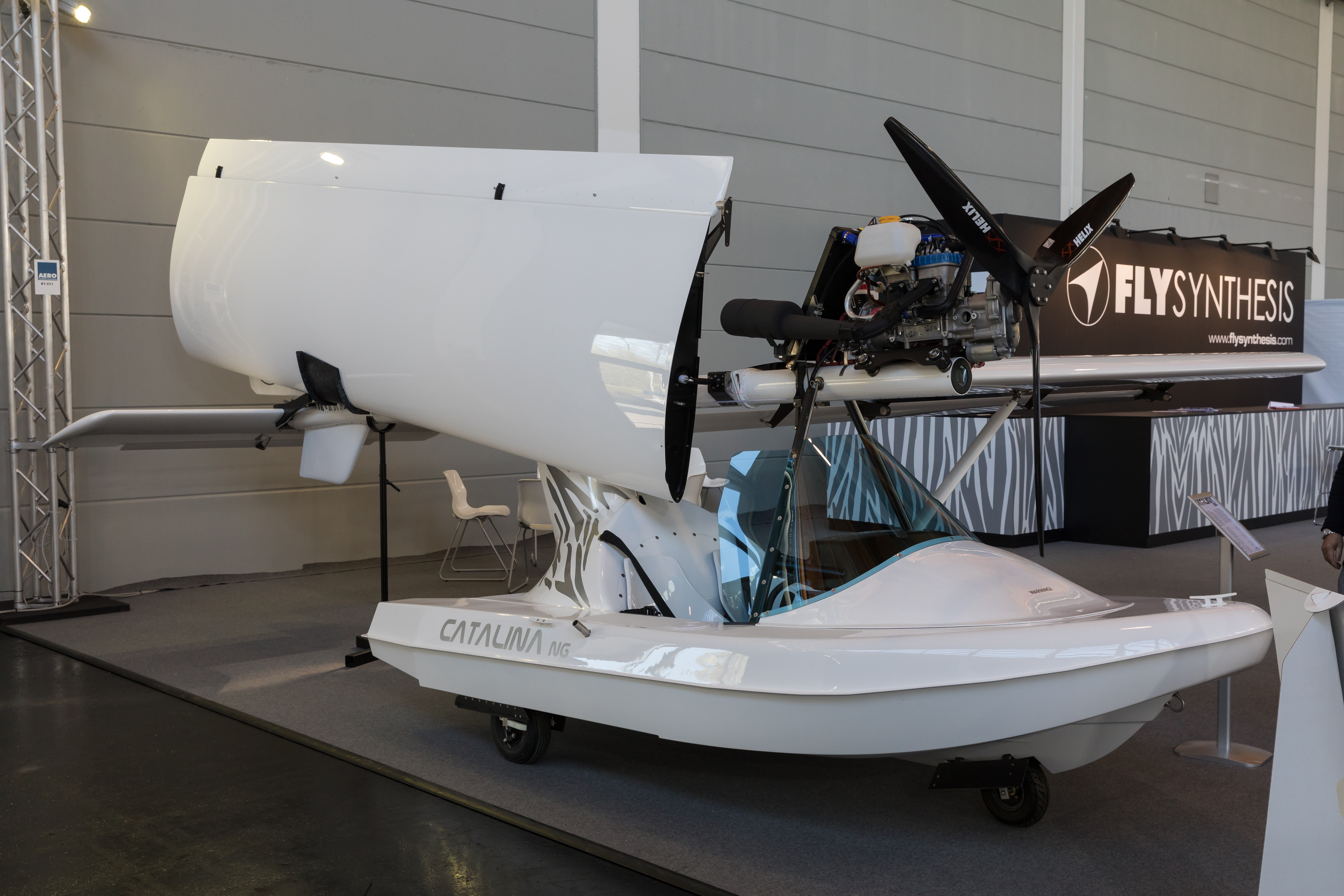 AERO Friedrichshafen 2018